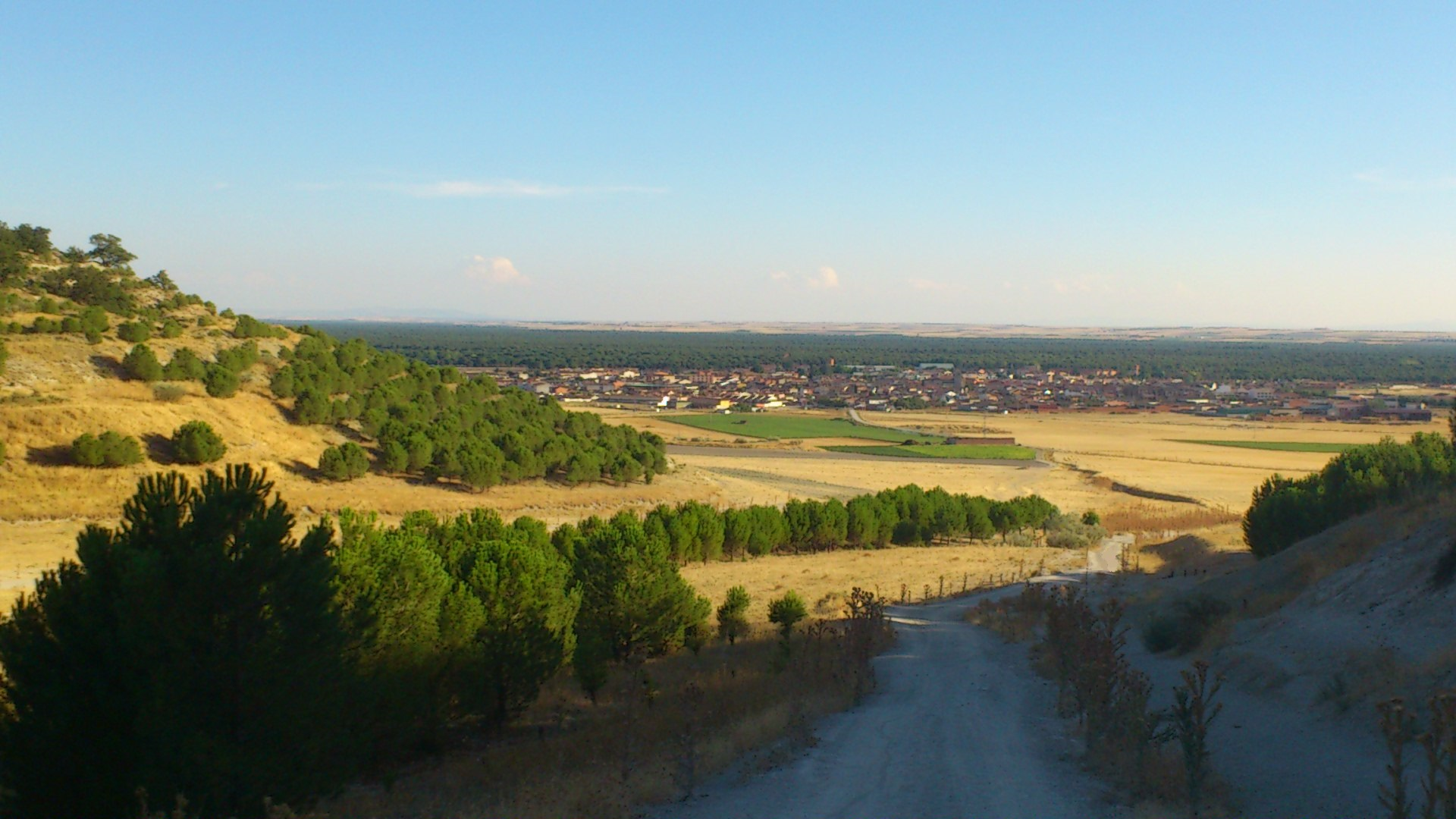 Fotografía de Pedrajas de San Esteban